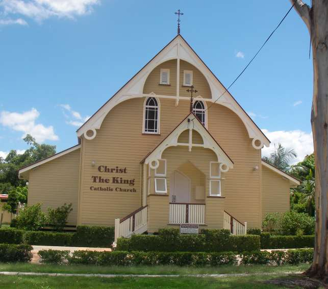 Christ the King Catholic Church. 7 Randolph Street. Graceville, Queensland.